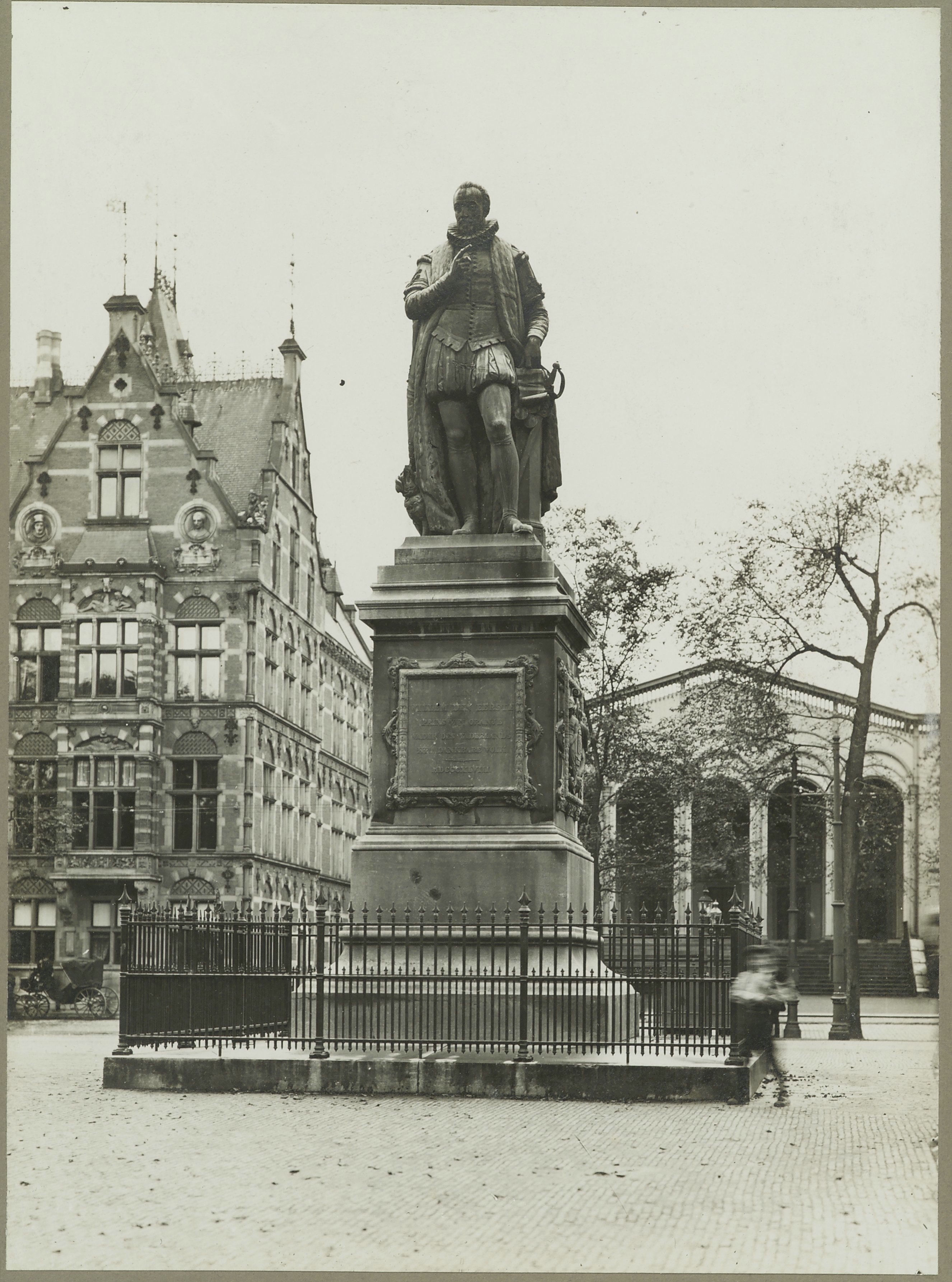 Statue of William of Orange, front view. (this is a statue of William the Silent (1533-1584), cast by Dutch sculptor Lodewyk Royer in 1848 and located in the Het Plain in The Hague's Old Center (Oude Centrum) near the Binnenhof.